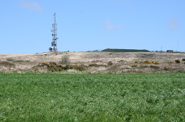 Carnmenellis Down